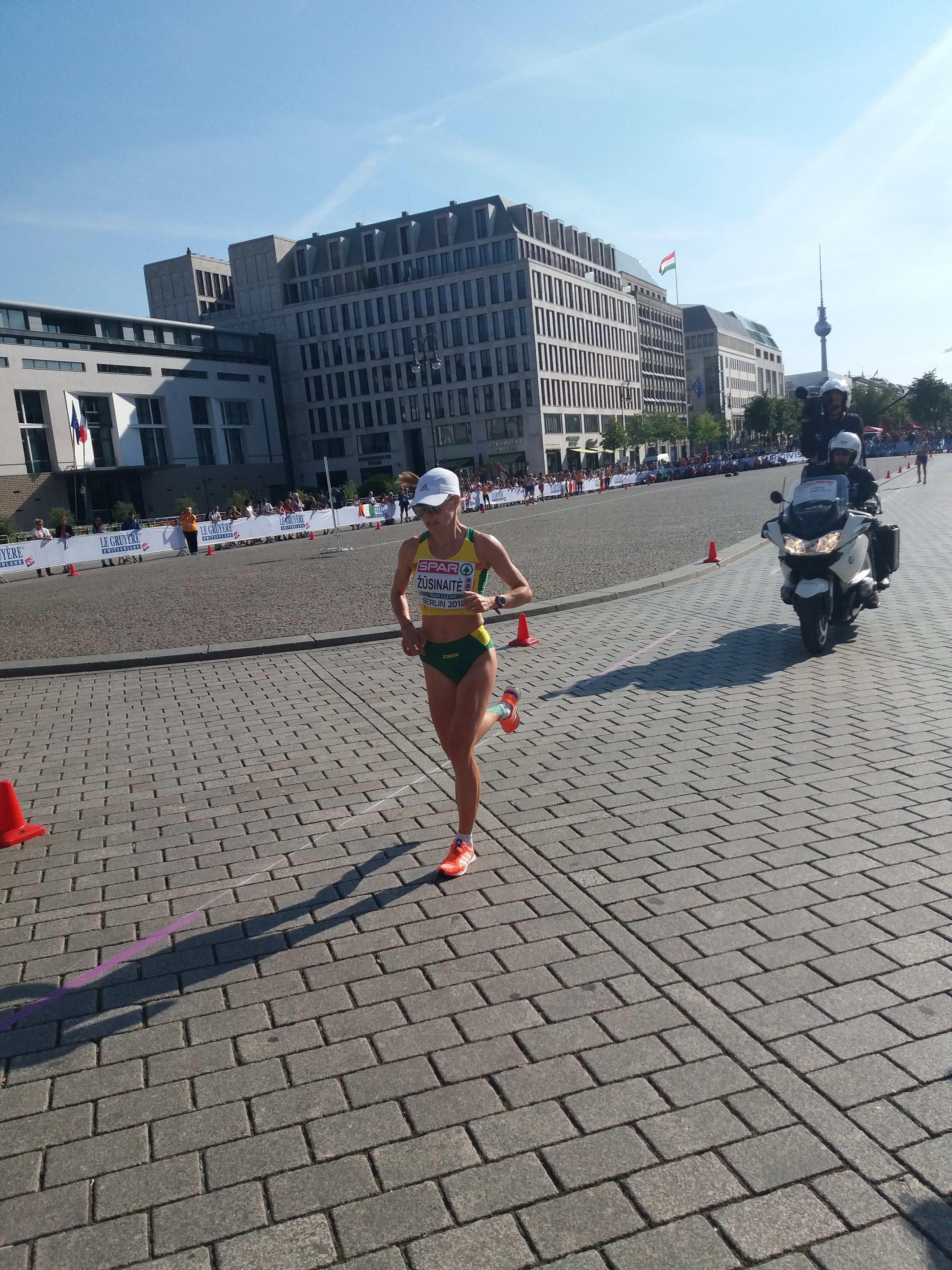 Marathon at the 2018 European Athletics Championships